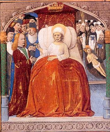 Death of King Louis IX the Saint at Tunis, 1270